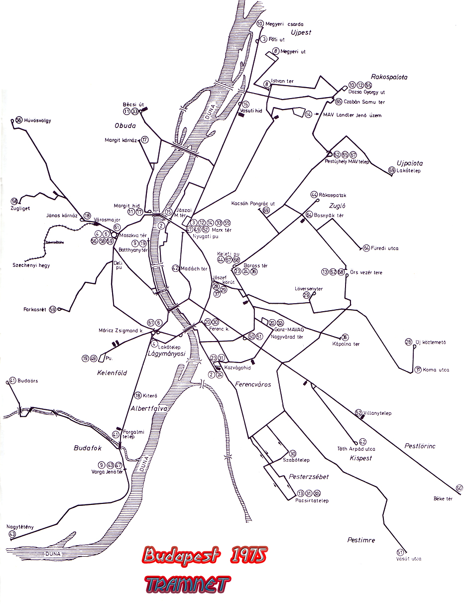 Streetcar Routes in Budapest in 1975